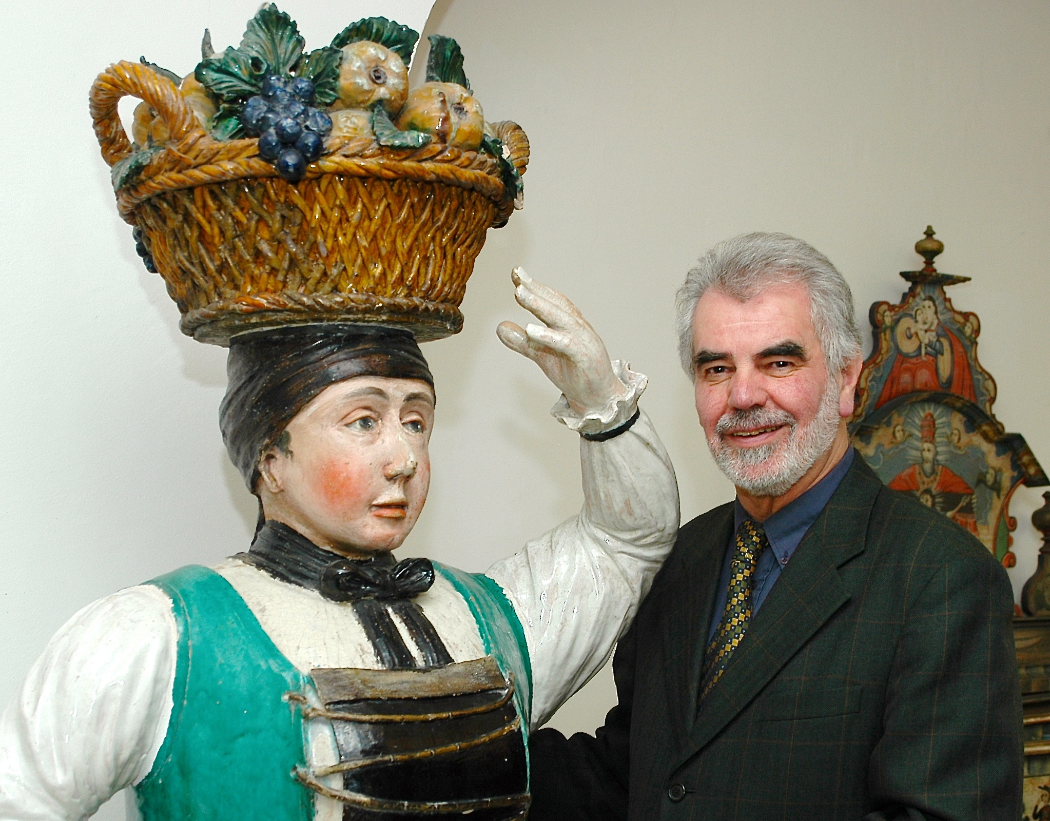 Franz Grieshofer